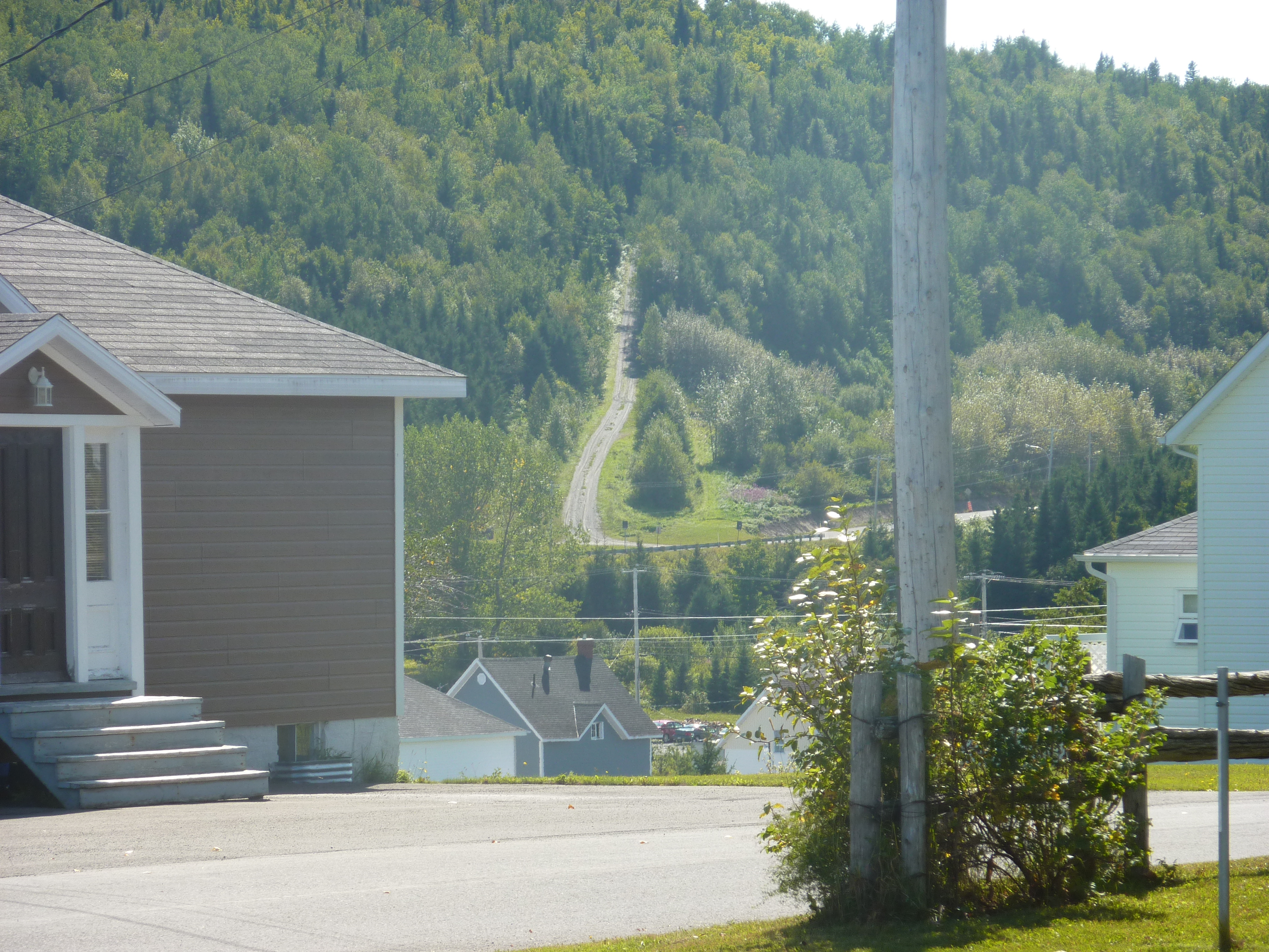 Padoue, Qc